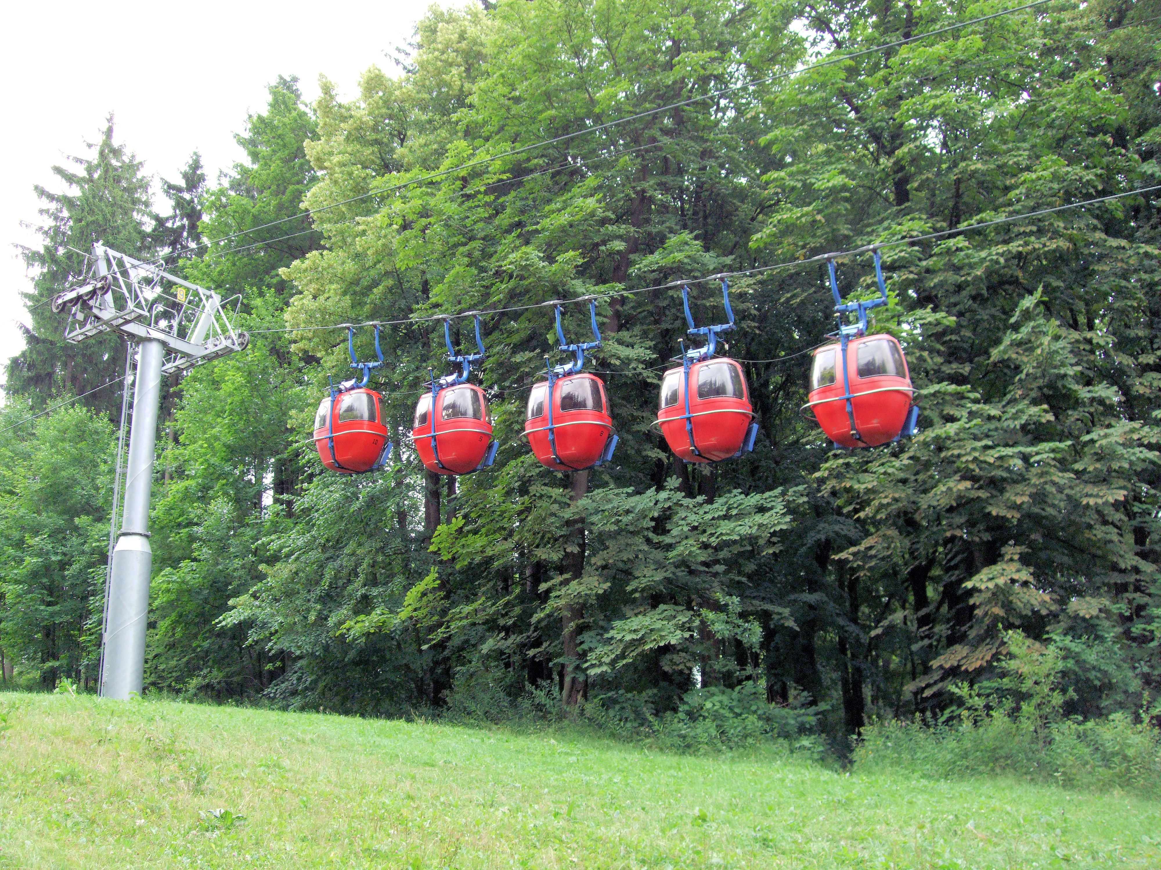 Gondola lift in Mariánské Lázně, Czech Republic